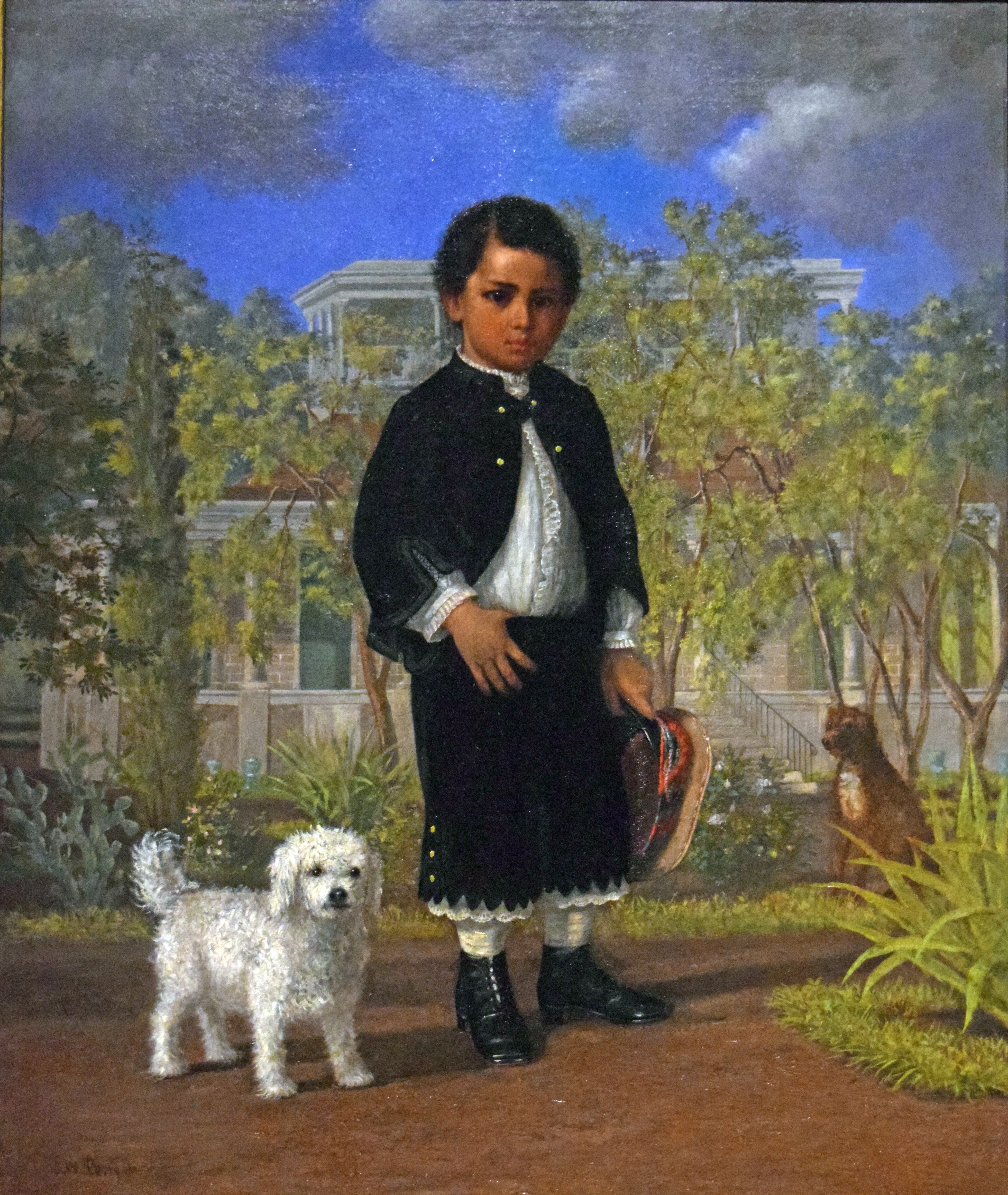 The Prince of Hawaii (Albert Edward Kauikeaouli). He is portrayed with two dogs in front of Hale Aliʻi or the old ʻIolani Palace.